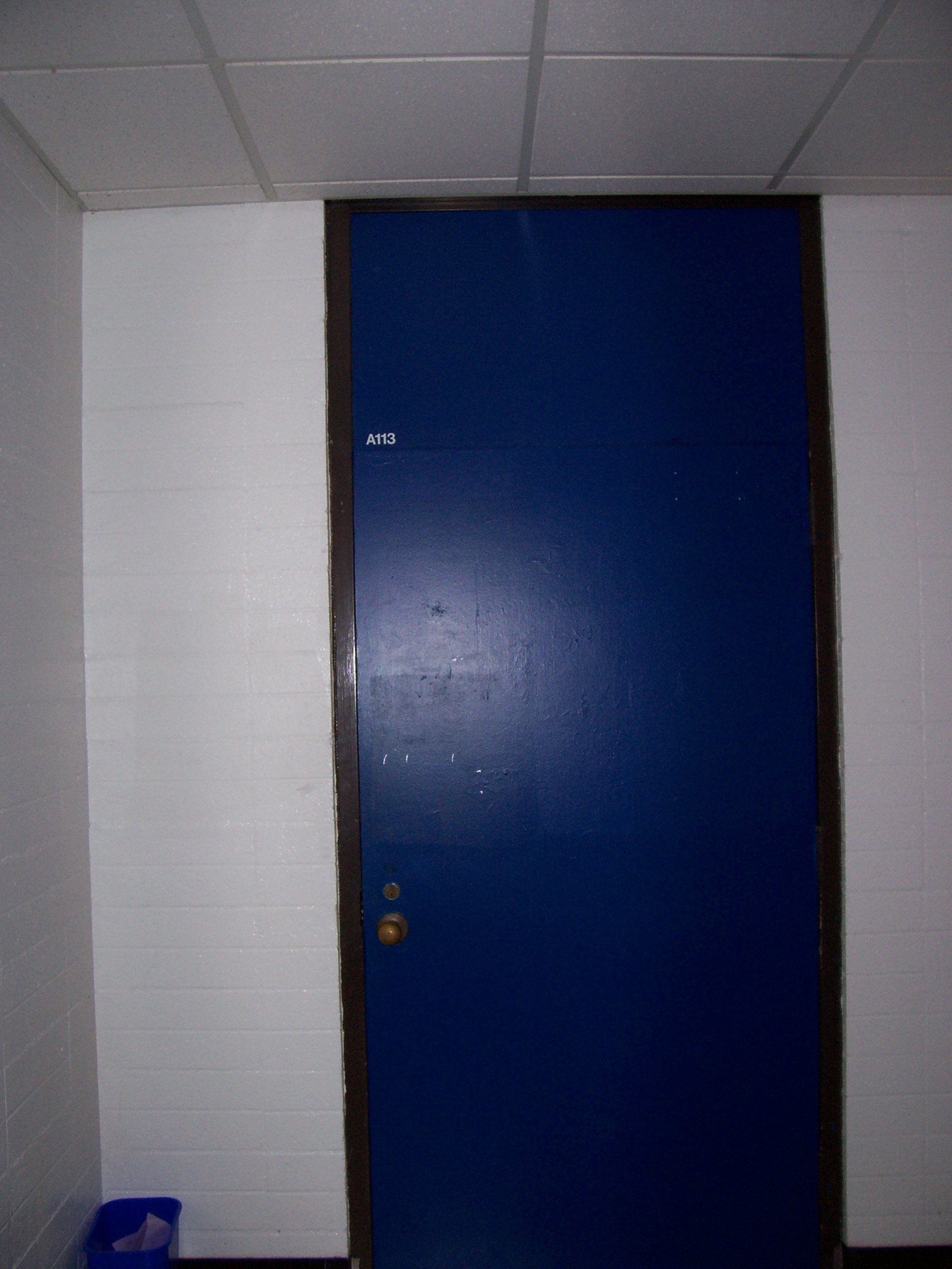 Room A113 of the California Institute of the Arts in Valencia, California, USA. "A113" (sometimes A-113 or A1-13) is an inside joke, an Easter egg in animated films created by CalArts alumni, as Room A113 was the classroom used by graphic design and character animation students.